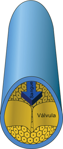 Portuguese version of Veincrosssection.png